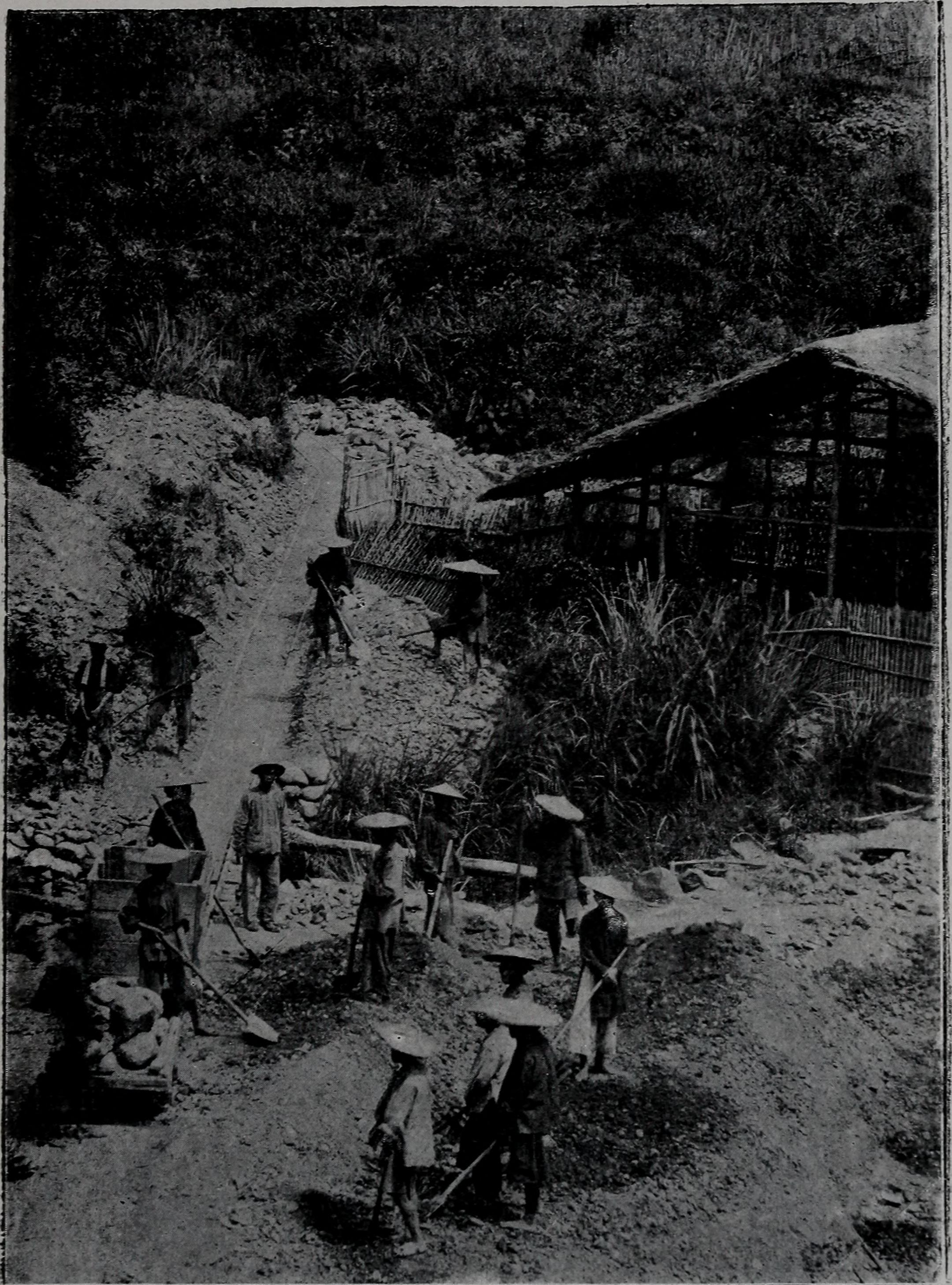 Title: Les colonies français Year: 1905 (1900s) Authors: Exposition universelle et internationale (1905 : Liège, Belgium) Subjects: Exposition universelle et internationale (1905 : Liège, Belgium) Publisher: (Paris : Les actualités diplomatiques et coloniales) Text Appearing Before Image: LEmbarcadère de LoDg-Tcheou.(Entrepôt du commerce aA*ec le Tonkin.) annamite. Cette capitale ne se composait, lors de notre occupation,que dune ville officielle comprise dans la vaste enceinte de la cita-delle construite par les officiers français au service de Giâ-Long.30.000 personnes étaient logées autour du palais royal. La ville com-merciale ne comprenait quun petit nombre dAnnamites et quel-ques maisons chinoises. Depuis lors, la ville compte 40.000 habi-tants, dont 150 Européens et 400 Chinois. Un beau pont a été jeté surle canal, un autre plus important traverse la rivière de Hué et relie — 27a Text Appearing After Image: Mines détain de Tinh-Tuc (Tonkin). — Déblaiement des terres stériles. — 276 — i citadelle à la légation de France qui est le siège de la résidenceupérieure. Divisions administratives. — Ce pays qui est divisé entre 14 pro. inces et qui a une superficie de 133.760 kilomètres carrés, a aussime importance politique pour notre protectorat ; une importancenaritime par son port de Tourane et ses autres ports très nom-reux, par sa grande étendue de côtes et par sa population deaarins ; il a pour les Européens une importance commerciale àause de son climat, de ses cultures variées et de ses ressources mul-iples.